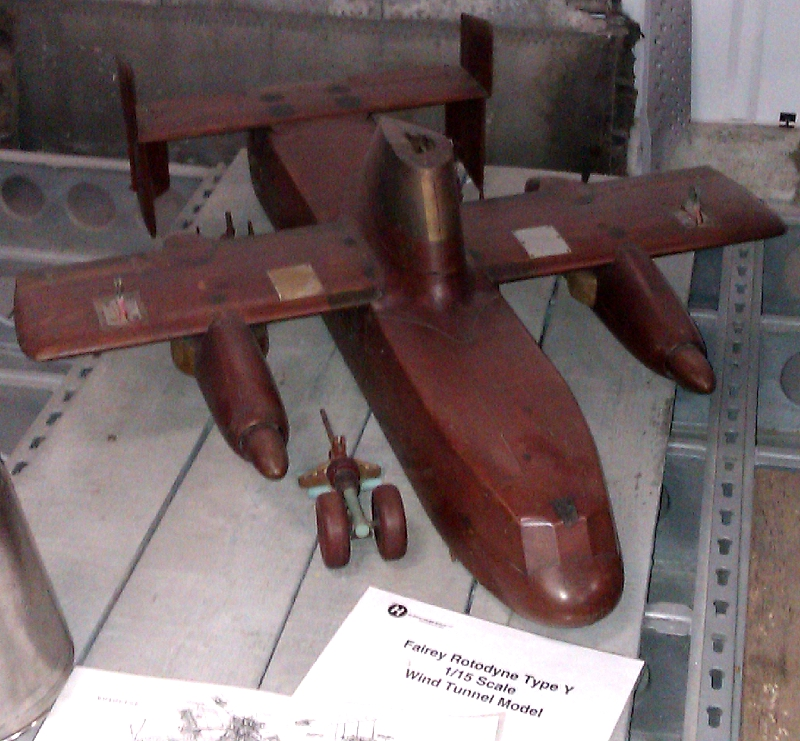 1/15 scale wind tunnel model of the Fairey Rotodyne. Taken at The Helicopter Museum, Weston-Super-Mare.